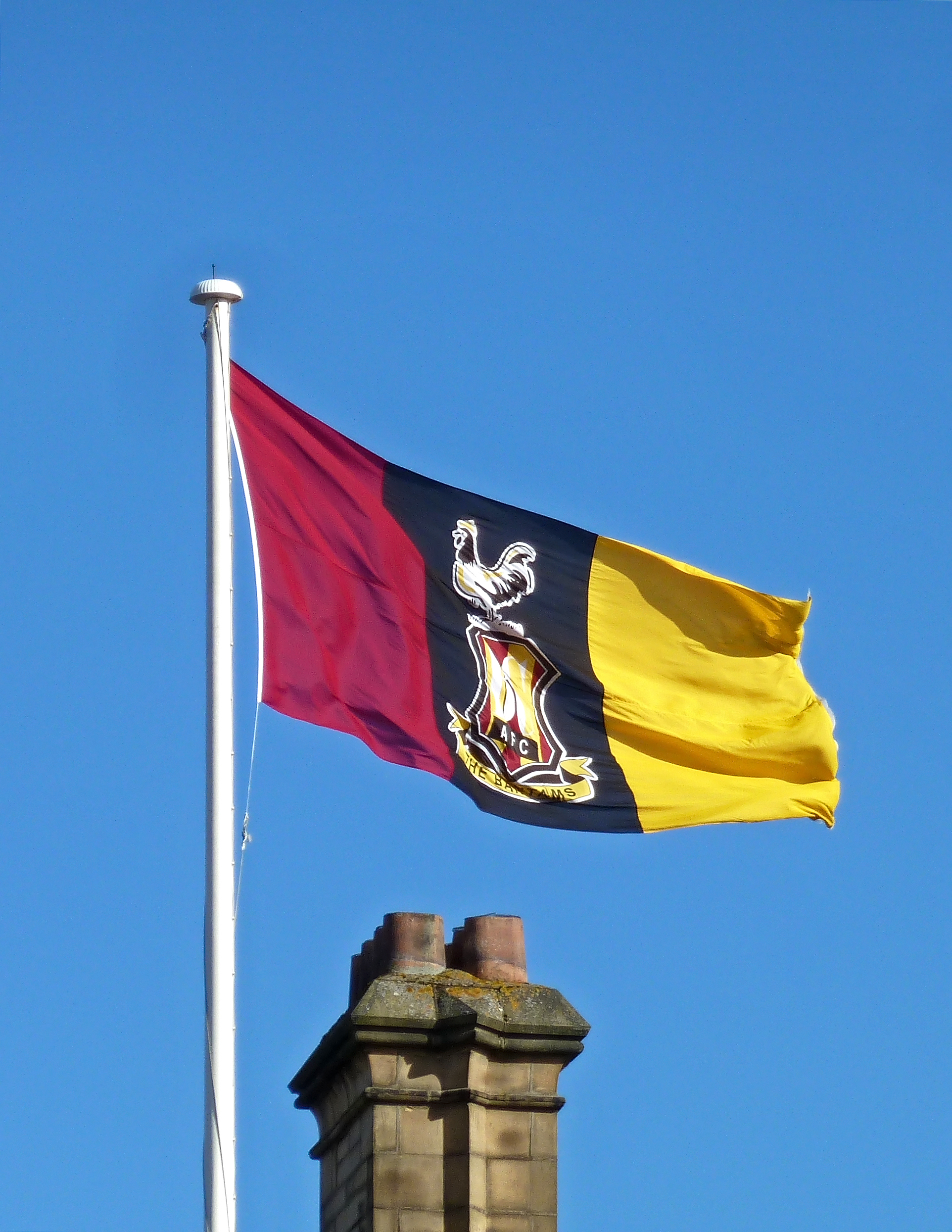 Bradford City AFC flag flying from Bradford City Hall in Bradford, West Yorkshire. Taken by Flickr user:Tim Green aka atouch on Friday the 15th of February 2013.